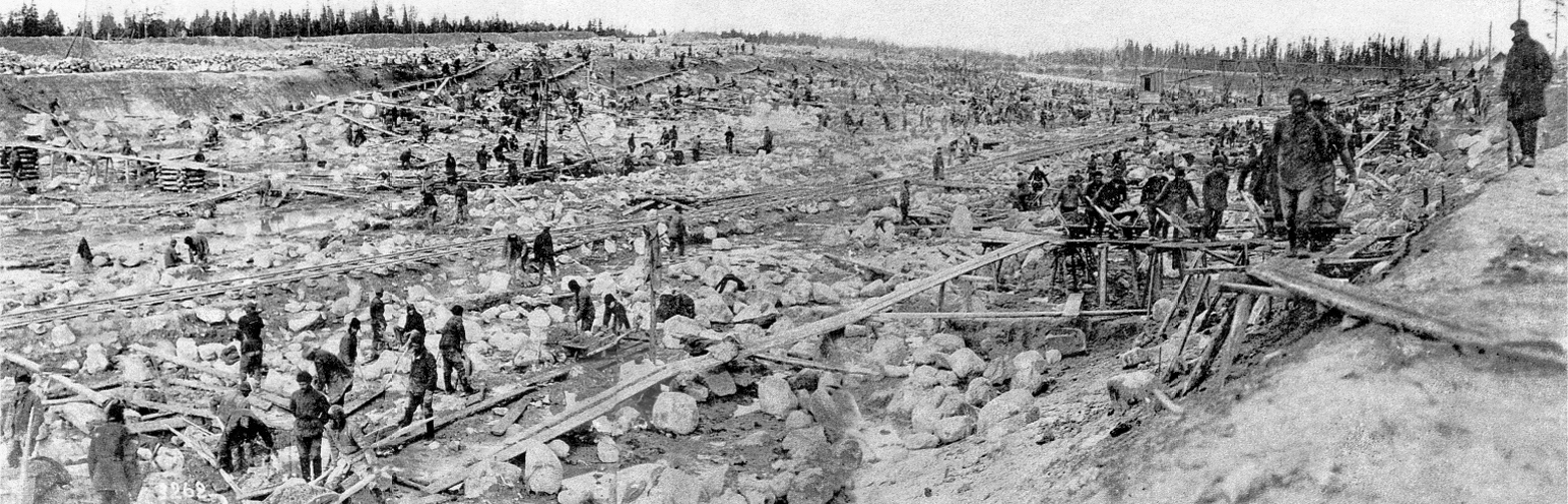 Panorama view of work at White Sea Canal (Belomorkanal) between lake ladoga and the white sea in the Soviet Union (from october 16, 1931 until august 30, 1933). As depicted most of the work has been done manually by forced labour.